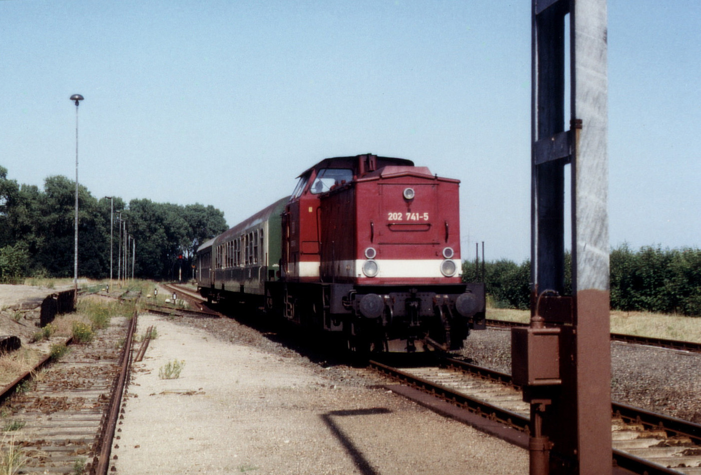 Short distance train approaching Kunrau Station